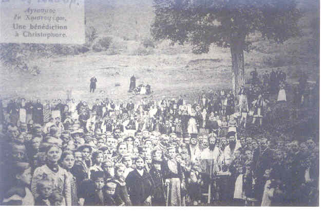 Holy water rites (Epiphany year 1903) in village Christofor